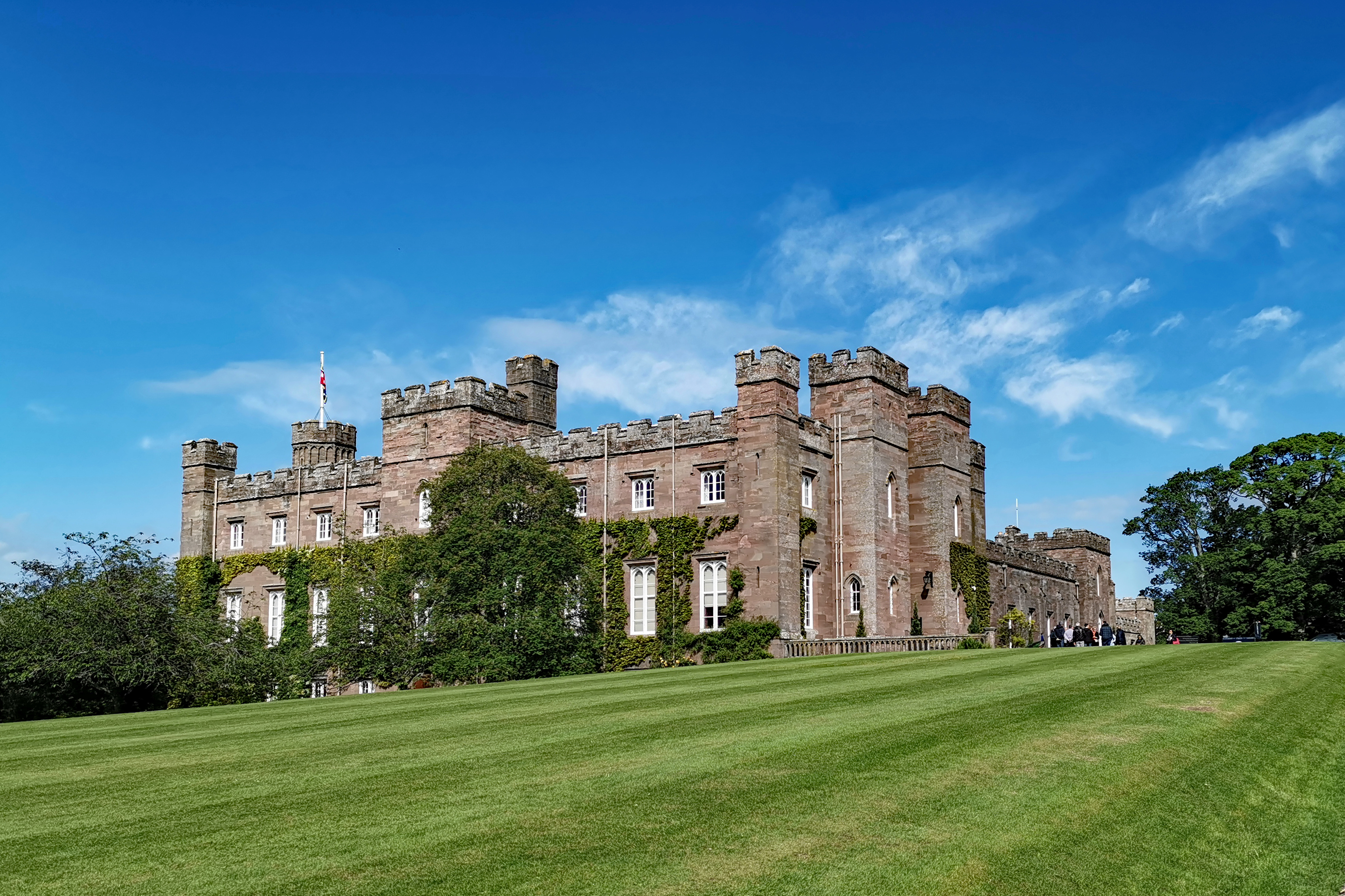 Scone Palace (Perth & Kinross, Scotland, UK)